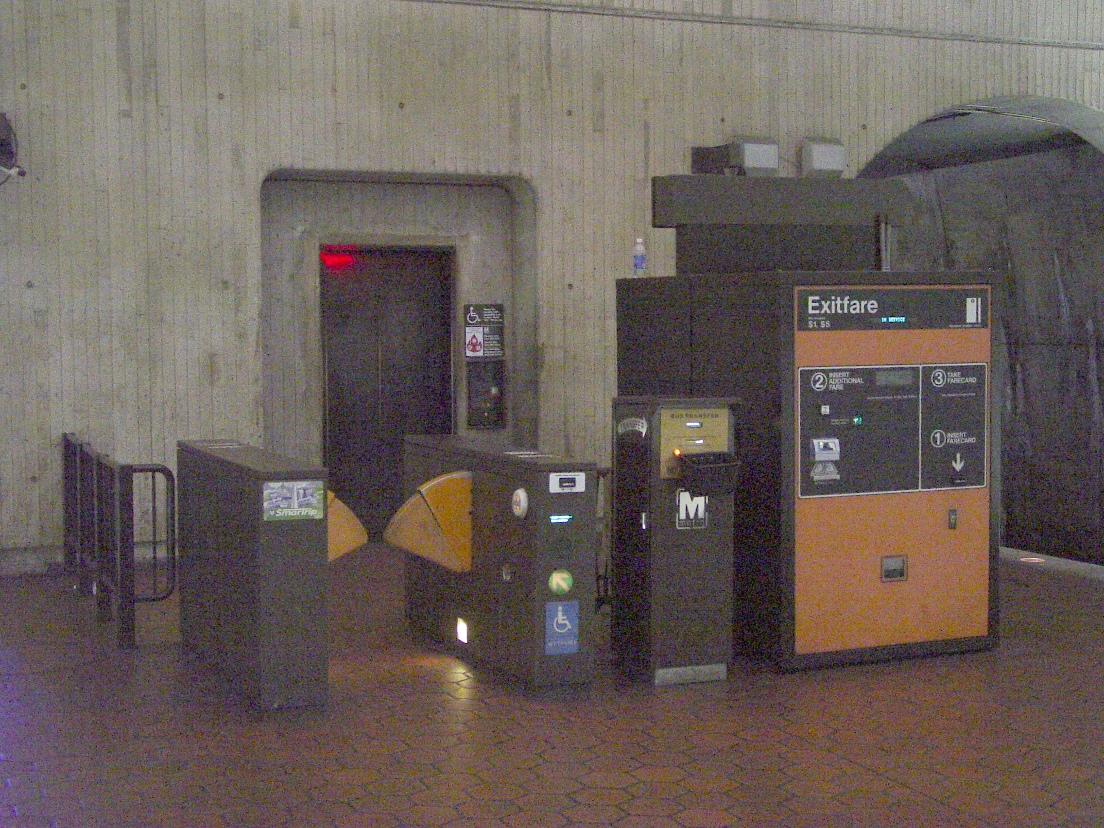 Washington Metro. Elevator exit at Tenleytown-AU station in Washington DC.